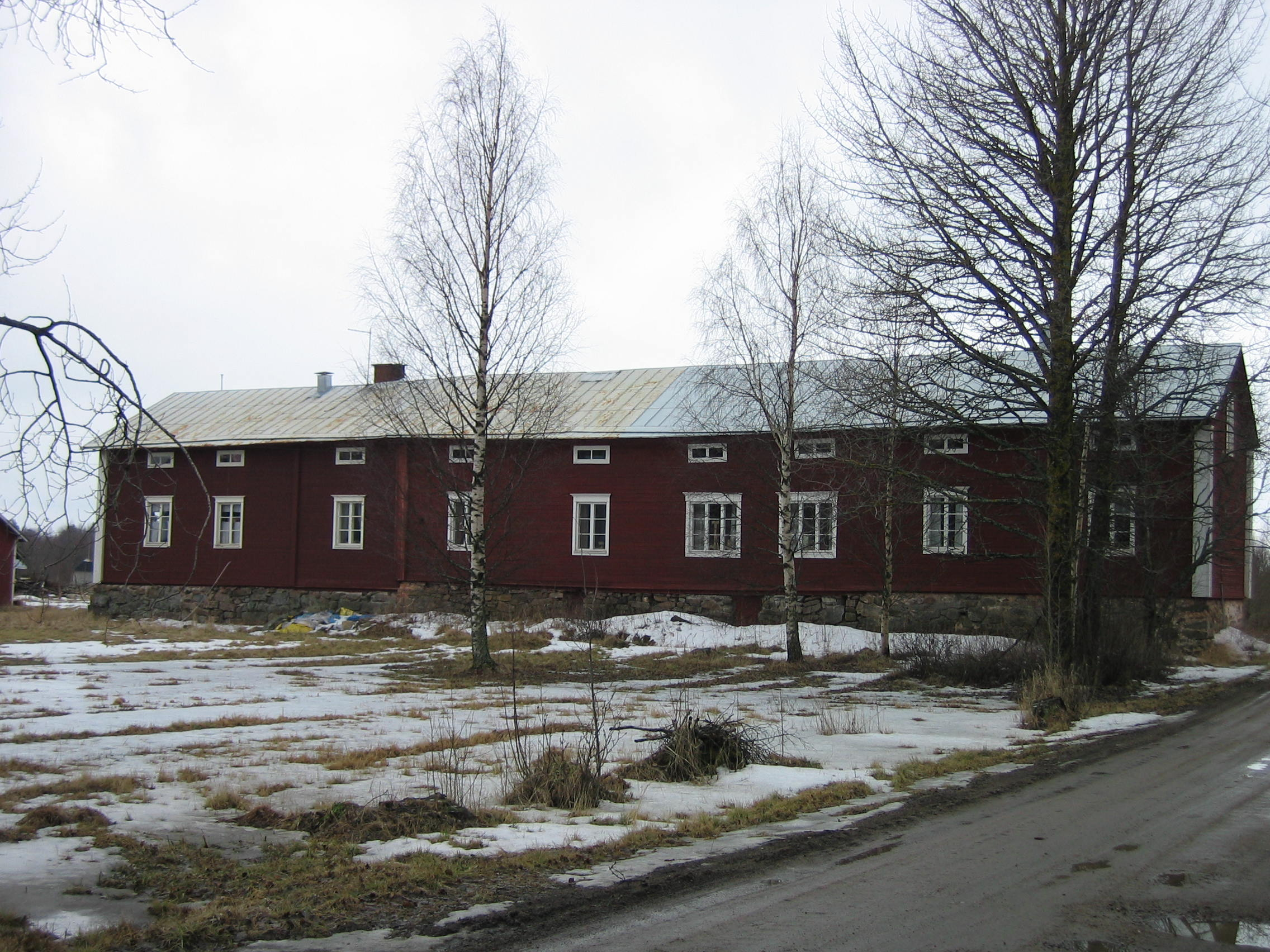 The main building of the old Nyby glass factory in the municipality of Ii, Finland.